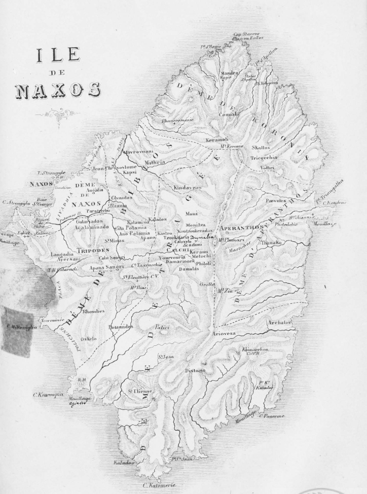 Old map of Naxos (1867) / Carte ancienne de Naxos (1867)